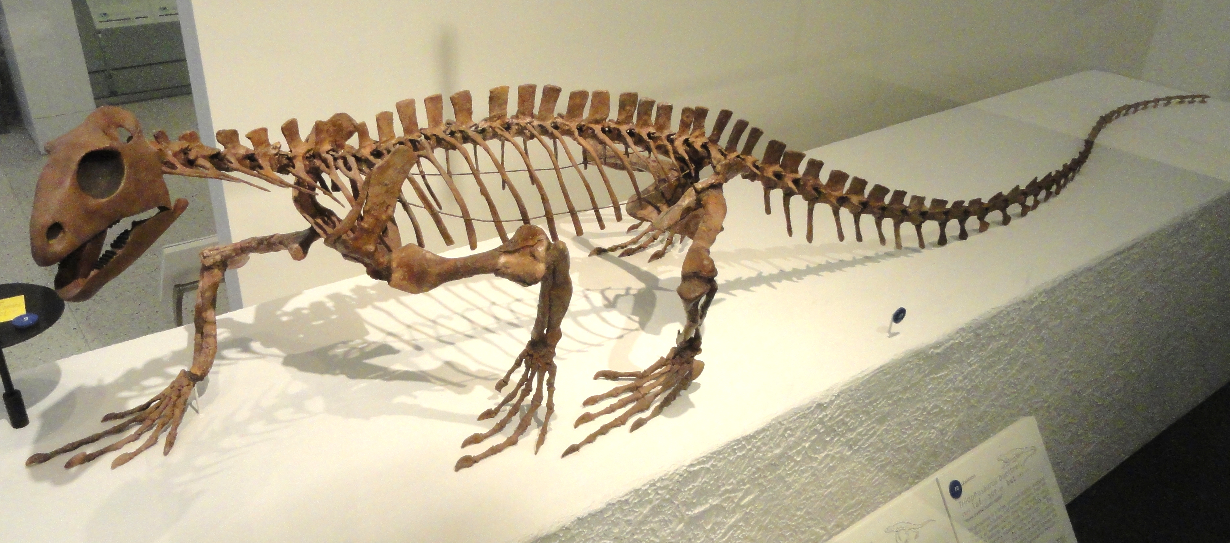 Exhibit in the fossil collection of the American Museum of Natural History, Manhattan, New York City, New York, USA.